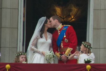 Wedding of Prince William, Duke of Cambridge, and Catherine Middleton - Buckingham Palace.